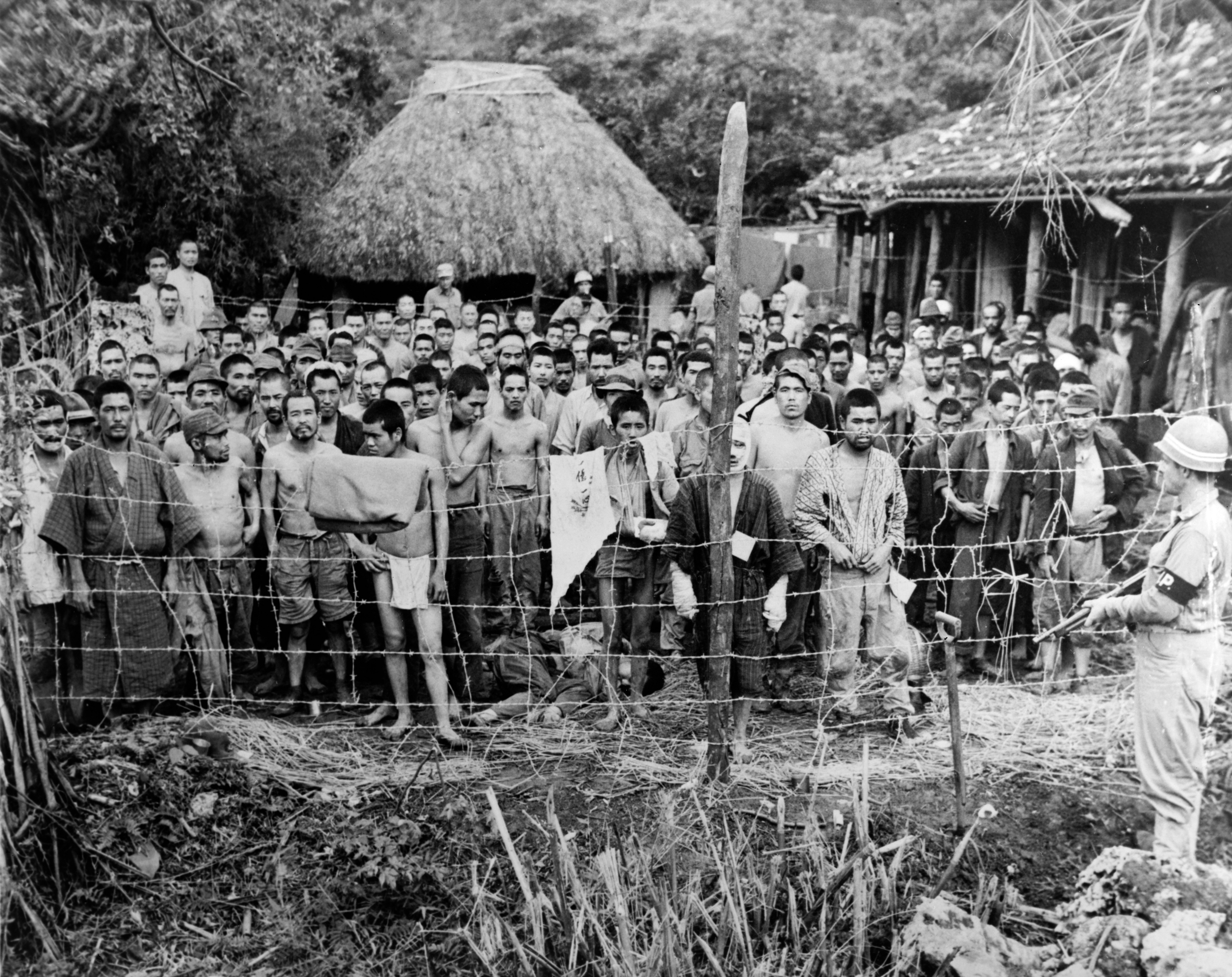 Japanese prisoners of war at Okuku, Okinawa Island